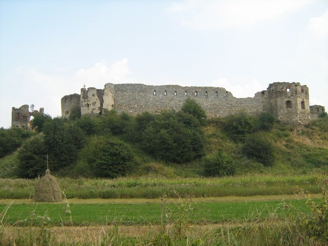 Pniv Castle (16th century) ruins in Pniv village, Nadvirna district, Ivano-Frankivsk region, Ukraine